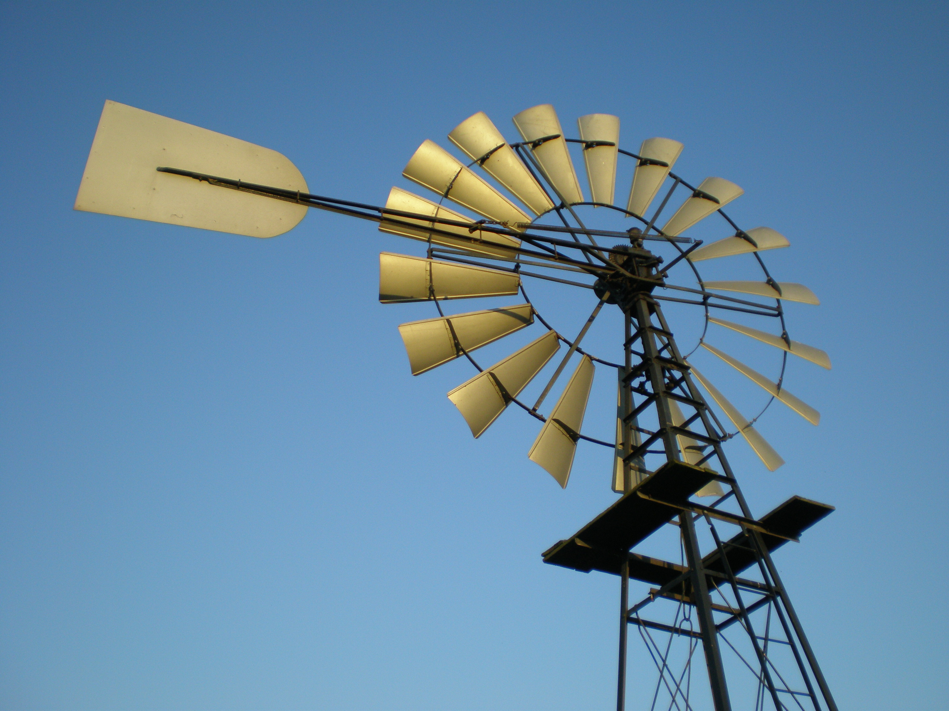 Windmotor Broek